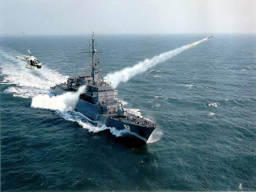 It is a picture of my own property, i am an officer of the Colombian navy, ensign rank, im not aware if this image is or is not already on the internet, but it is not copyrighted.